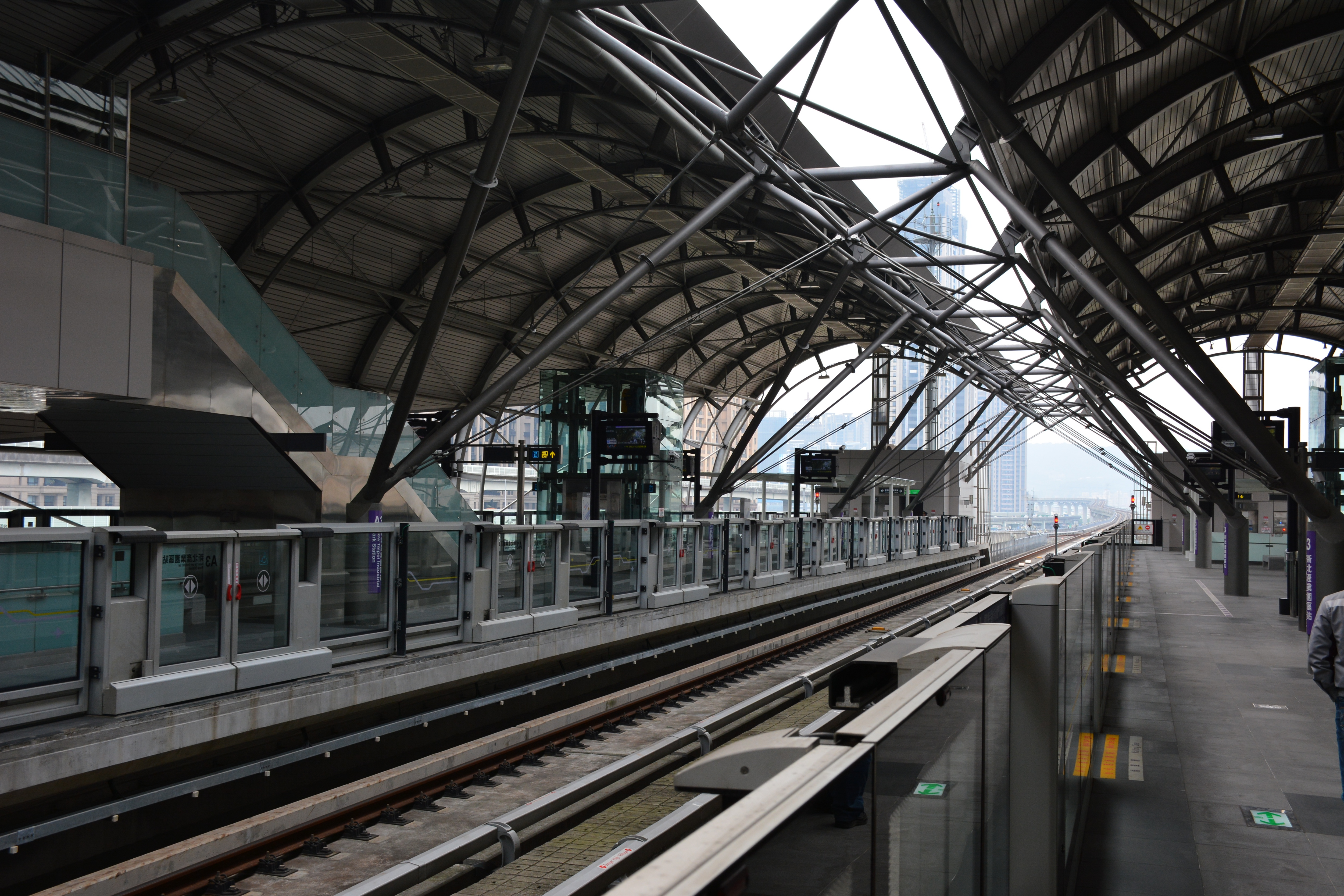 Platform 2 and Platform 3, New Taipei Industrial Park Station, Taoyuan Metro.